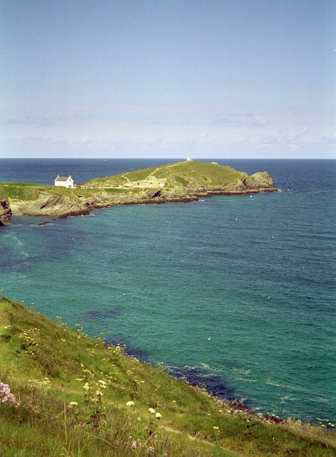 Towan Head. Taken from the coast path above Beacon Cove